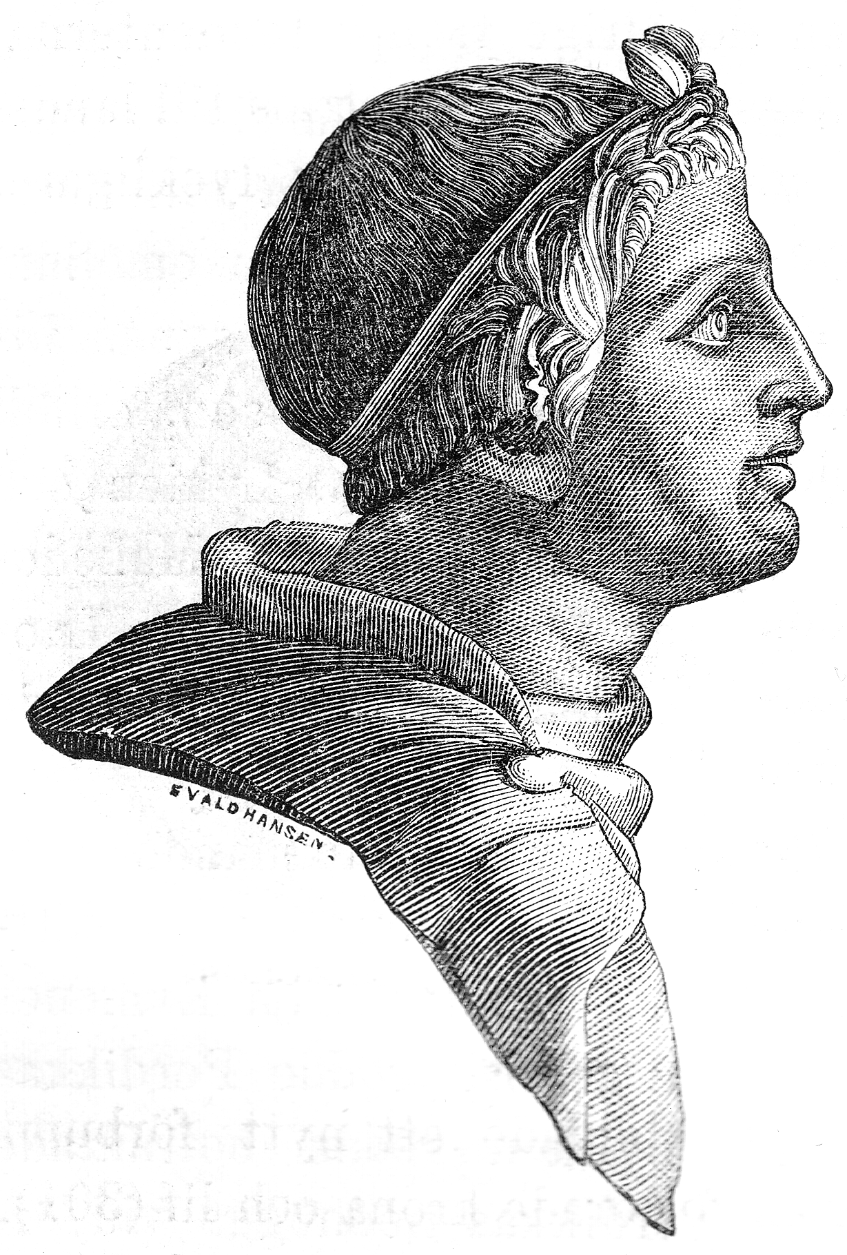 Illustration from Illustrerad verldshistoria by E. Wallis, volume I. "Demetrius Poliorcetes."